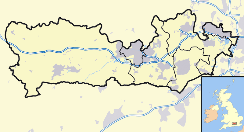 Map of the county of Berkshire, England, United Kingdom